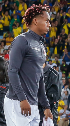 (Rio de Janeiro - RJ, 07/07/2019) Presidente da República, Jair Bolsonaro, e o Presidente da Confederação Sul-Americana de Futebol (CONMEBOL), Alejandro Domínguez, durante entrega da premiação da Copa América 2019. Foto: Carolina Antunes/PR